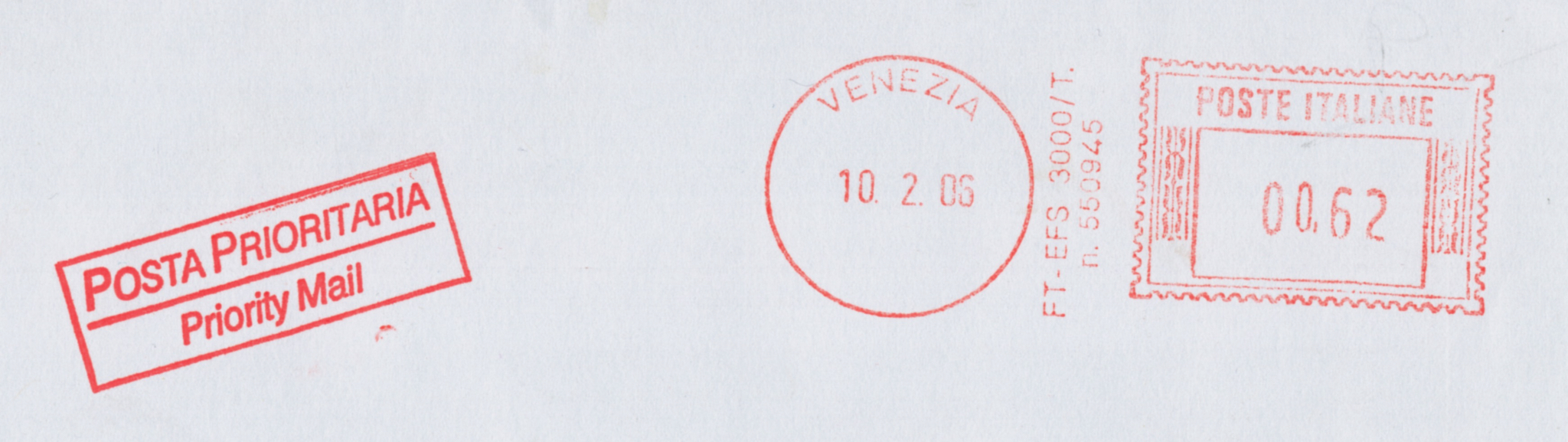 Meter stamp issued in Venezia.